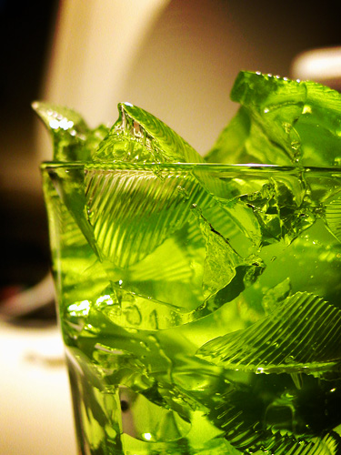 Photo of green gelatin